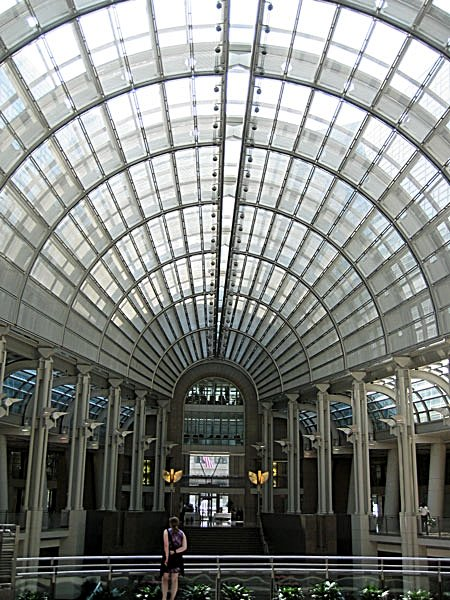 An atrium at the Reagan Building complex in downtown DC.